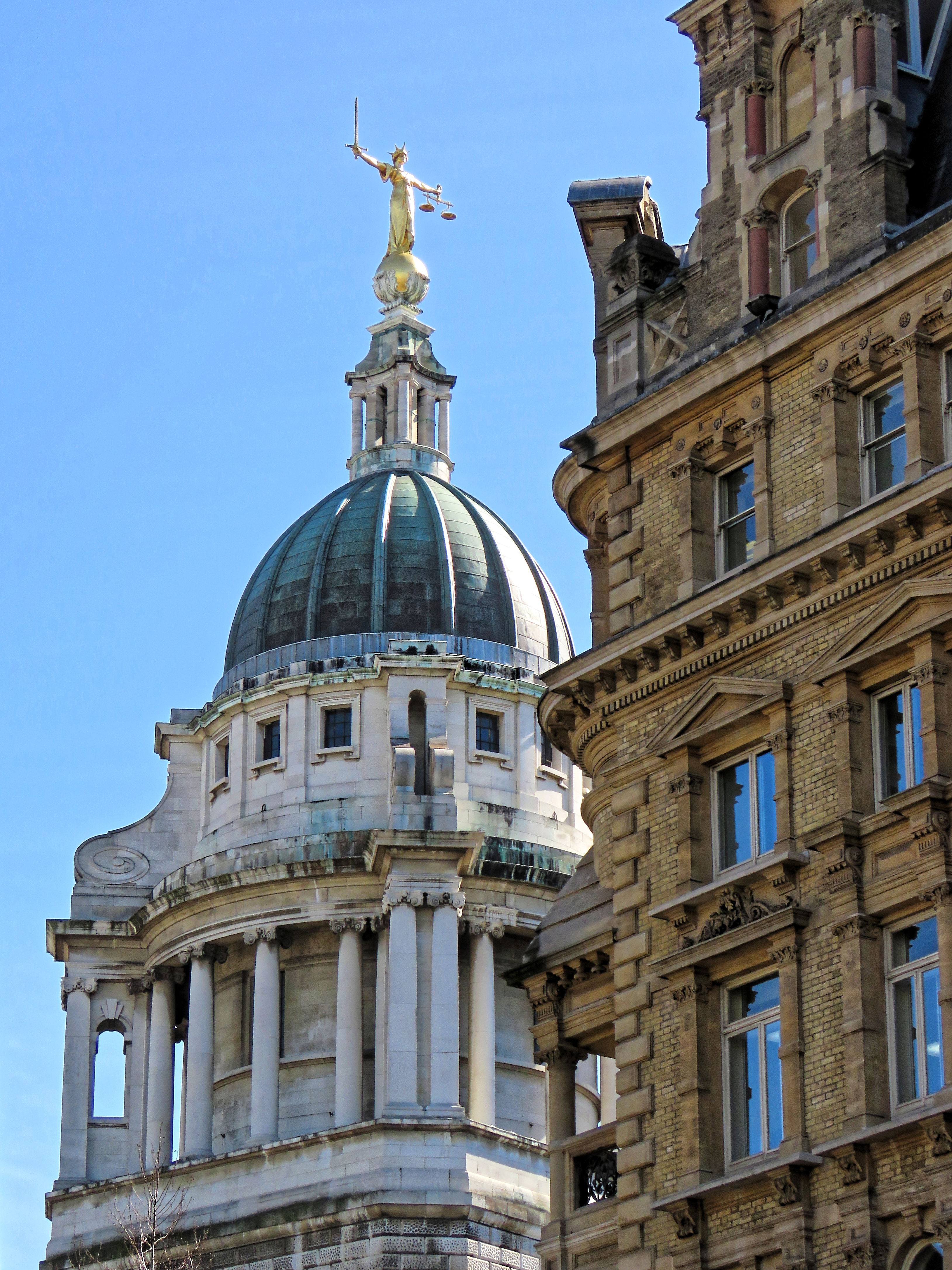 The cupola dome of the Central Criminal Court, Old Bailey and the corner of Old Bailey Chambers, from the northwest on Holborn Viaduct in the City of London, England.Camera: Canon PowerShot SX60 HS.Software: file lens-corrected and optimized with DxO PhotoLab Elite and Viewpoint 3, and further optimized with Adobe Photoshop CS2.